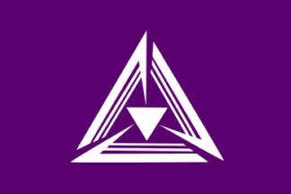 Flag of Kumano Hiroshima